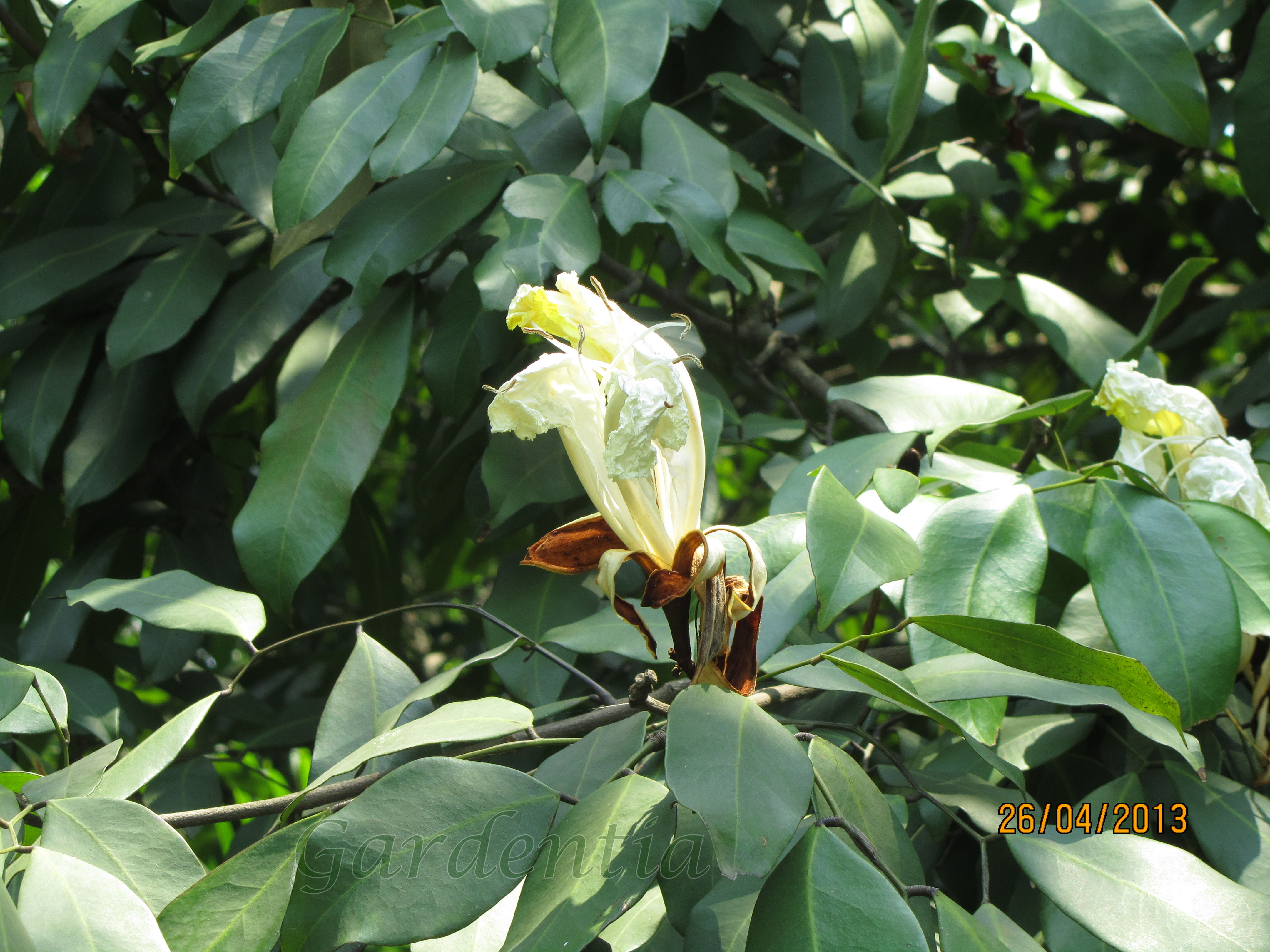 Baikiaea insignis, a legume from the Fabaceae family. Photographed at the Acharya Jagadish Chandra Bose Indian Botanic Garden, Kolkata, India.